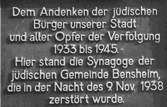 Commemorative plaque of the destruction of the synagogue of Bensheim in 1938 affixed in 1971.